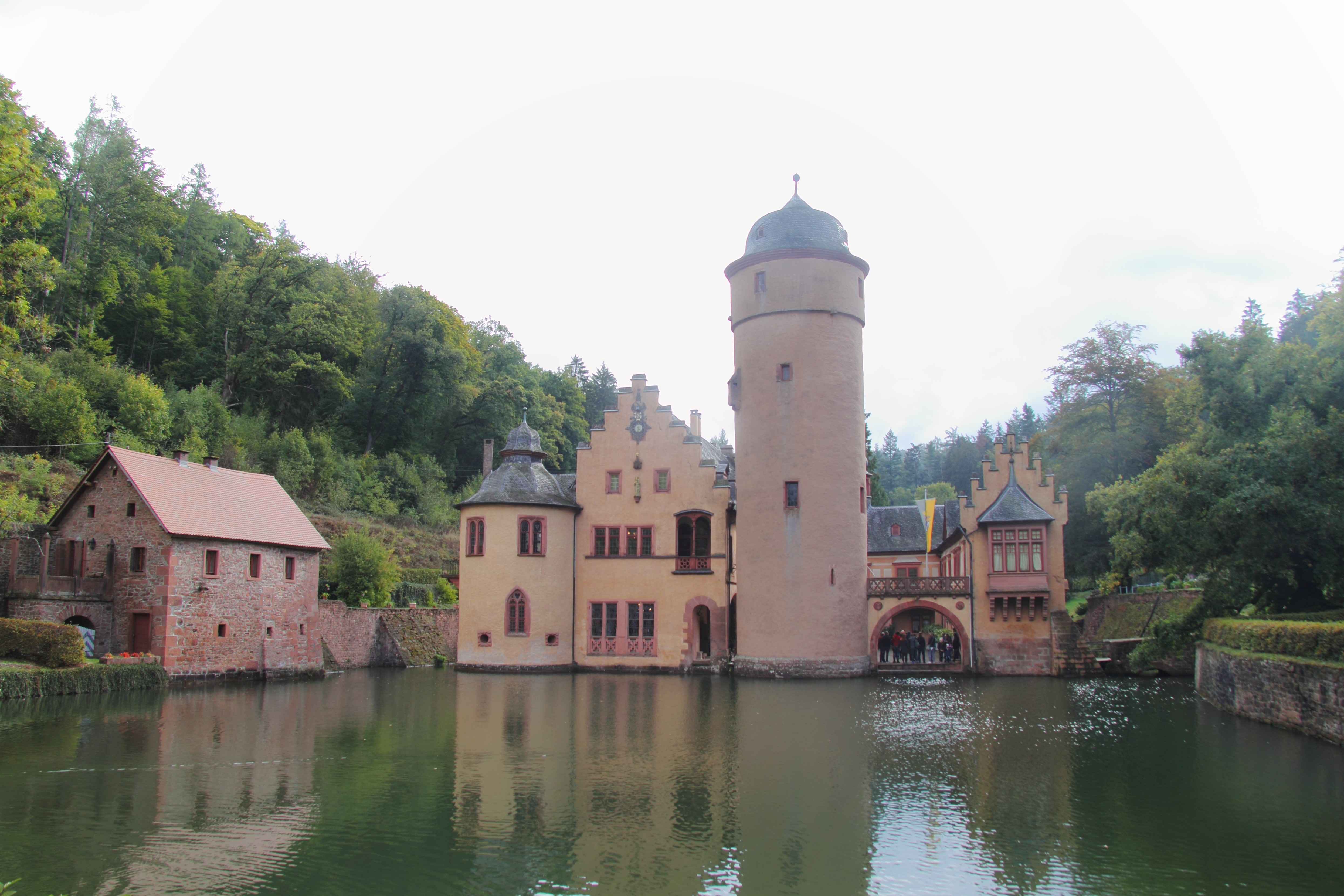 Germany: Mespelbrunn, Mespelbrunn Castle in the Spessart mountains